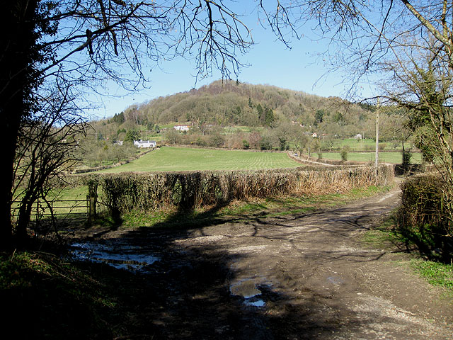 View to Backbury Hill (225m) From the small, stone bridge over the Pentaloe Brook.